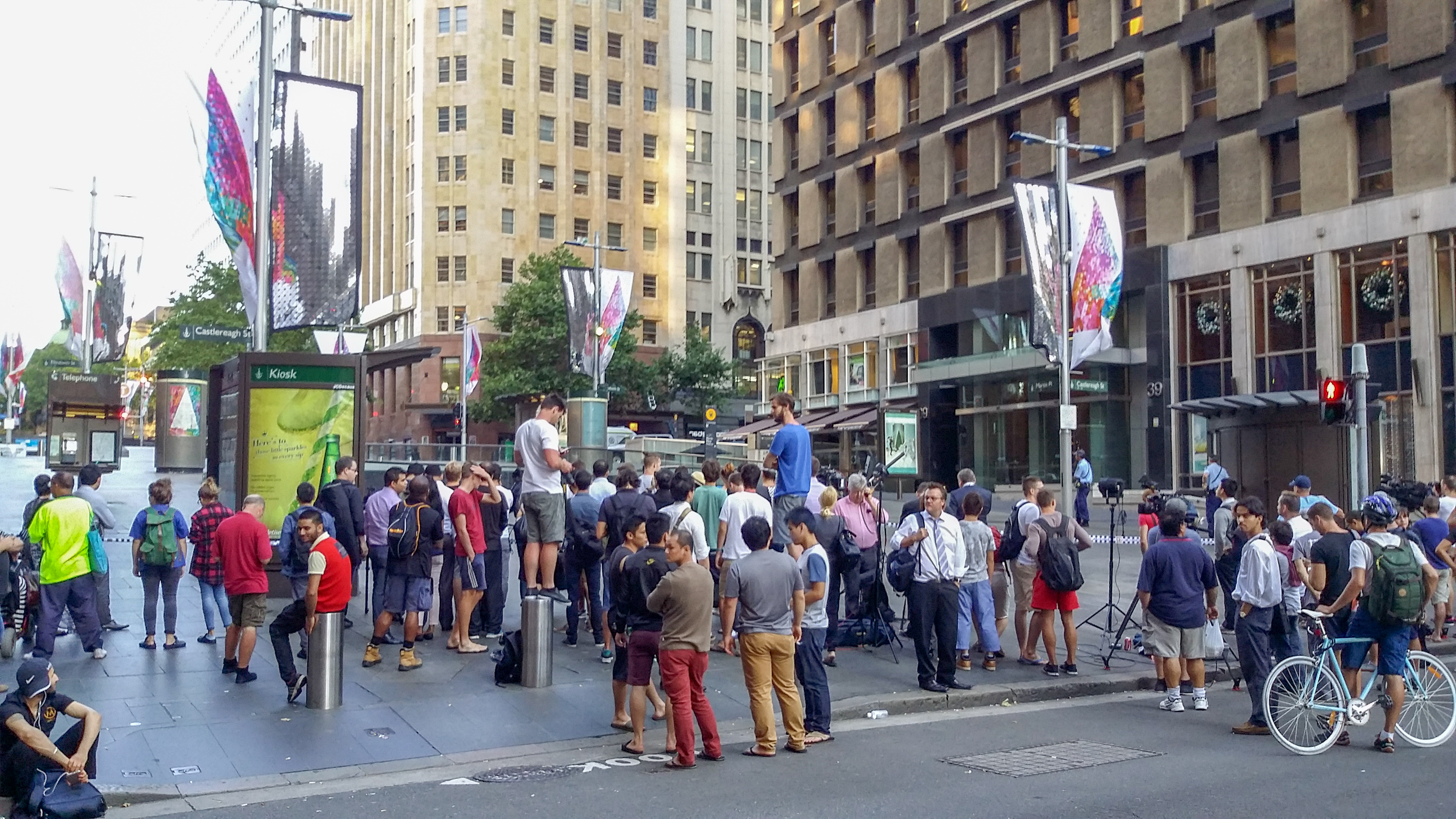 2014 Sydney hostage crisis, Martin Place, Sydney